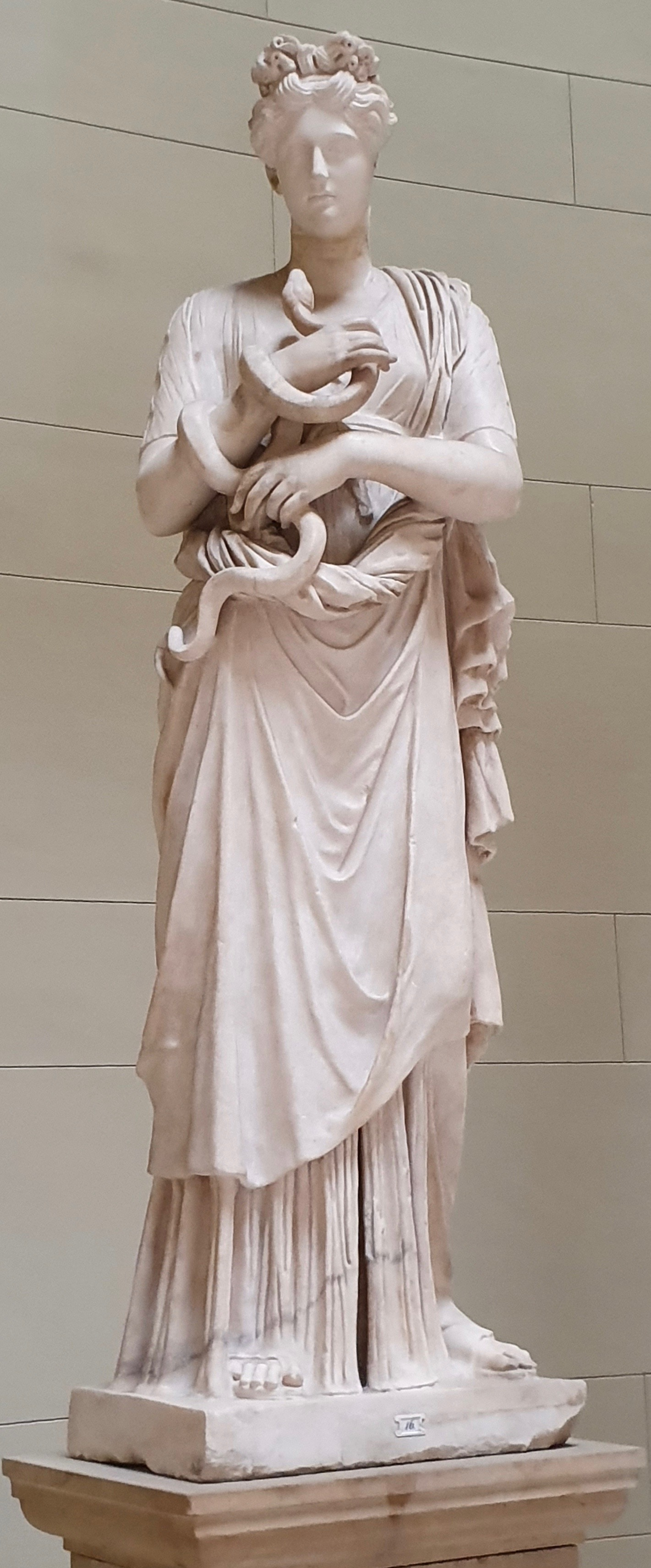 Statue of Hygieia at Rotunda of Altes Museum